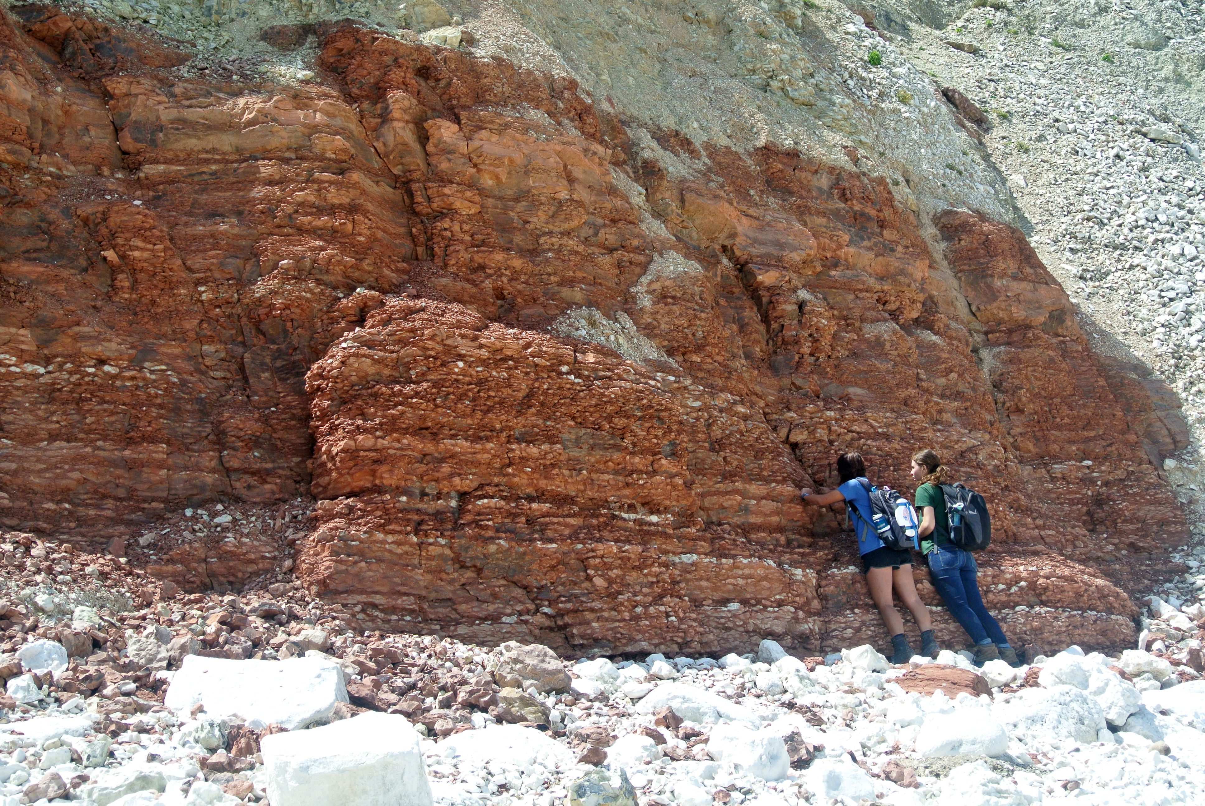 Hunstanton Formation ("Red Chalk") exposed south of Speeton Cliffs, North Yorkshire.